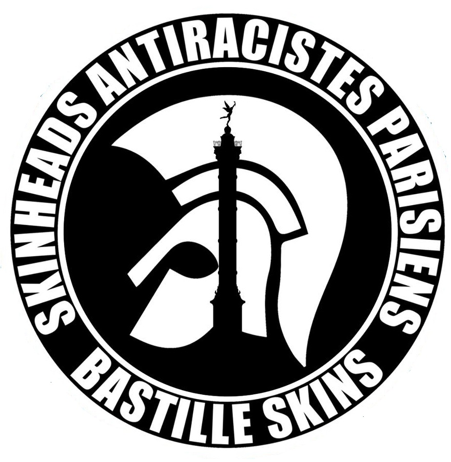 anti-racist skinheads